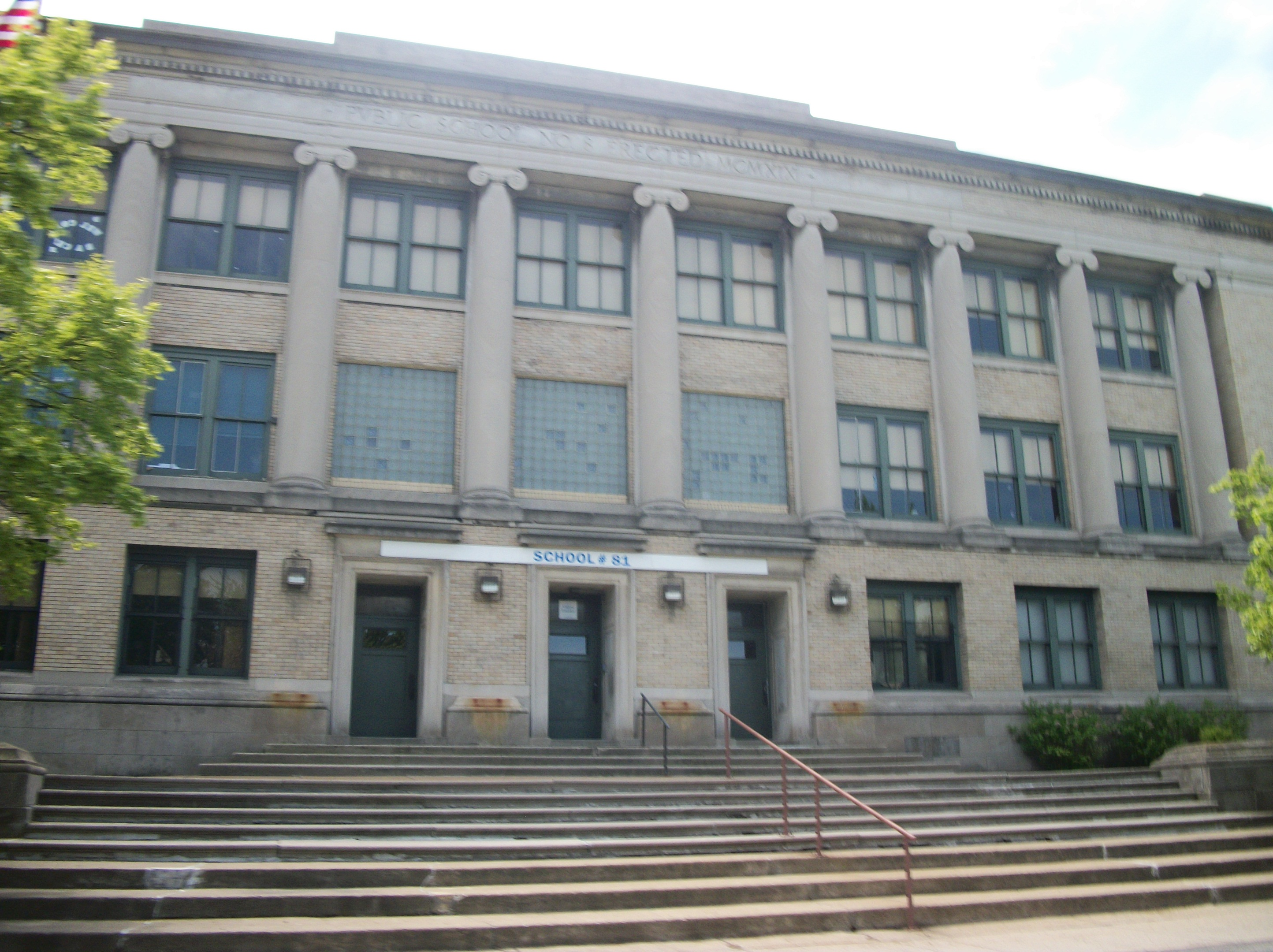 Public School 8/Follow Through Magnet Urban Learning Lab 167 East Utica Street Buffalo, NY 14208